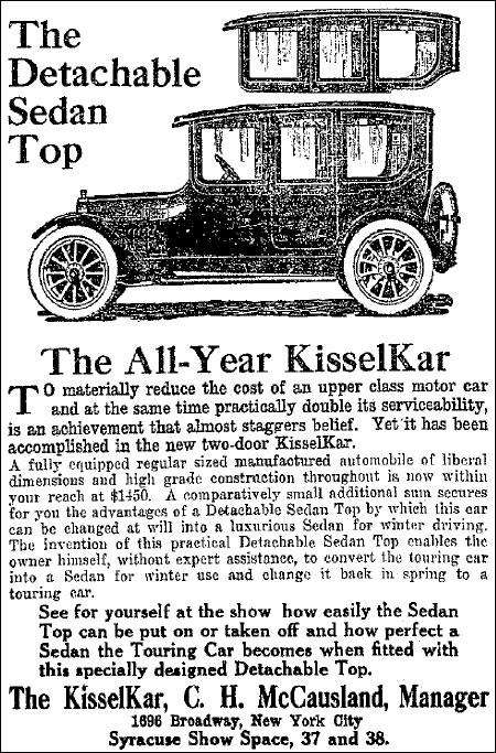 A 1915 Kisselkar Advertisement